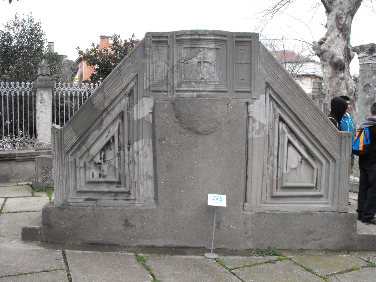 This is an ancient Ambon outside of Hagia Sophia in Istanbul. These would be placed in the center of a church, and would typically be where the Epistle or Gospel was read.